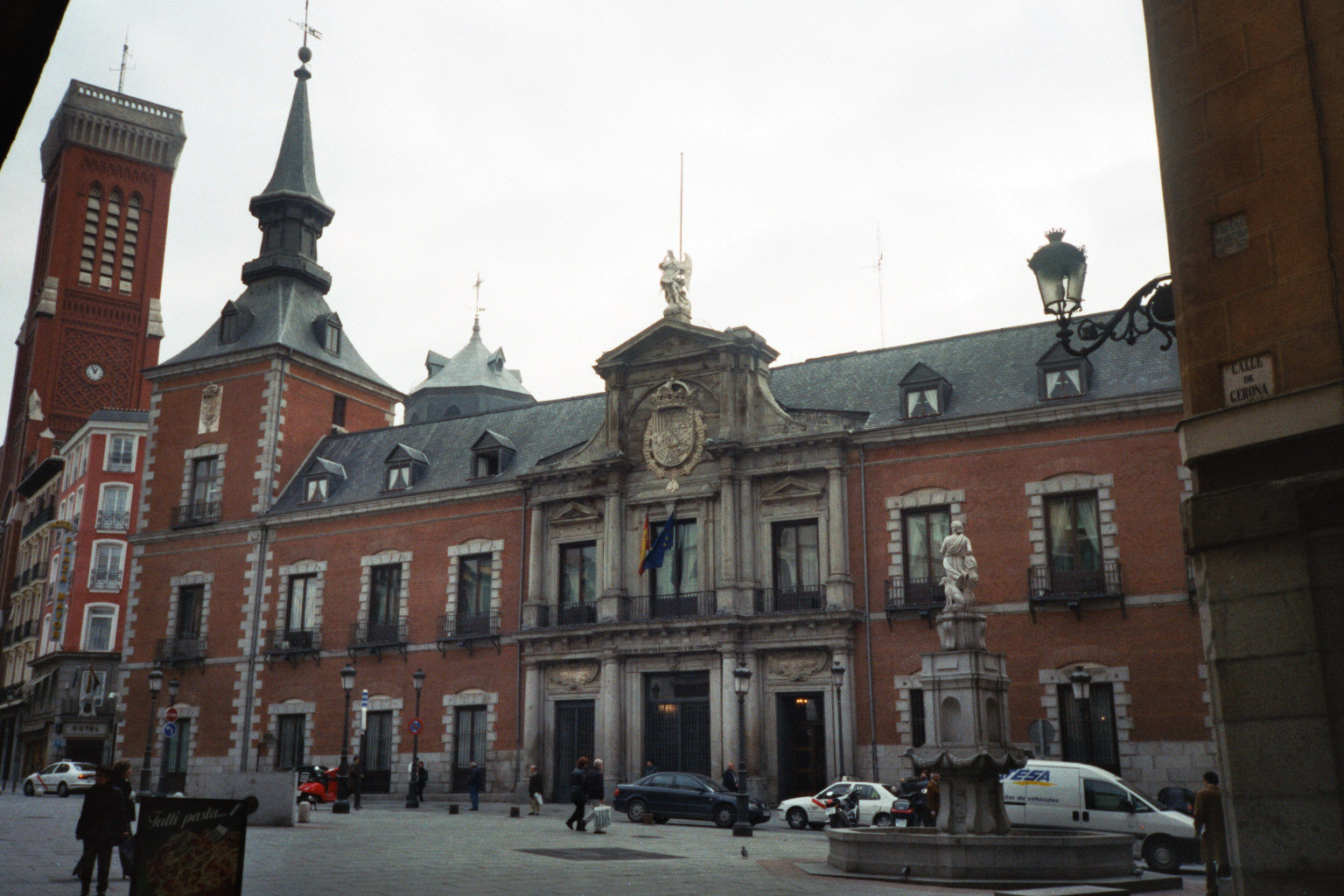 Description: View of the Palacio de Santa Cruz in Madrid. Source: self-made, I release it into the public domain.